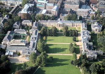 Bird's eye view of Downing College, Cambridge.